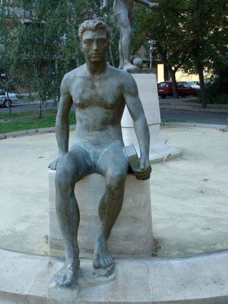 The Peace Fountain in Budapest (detail)